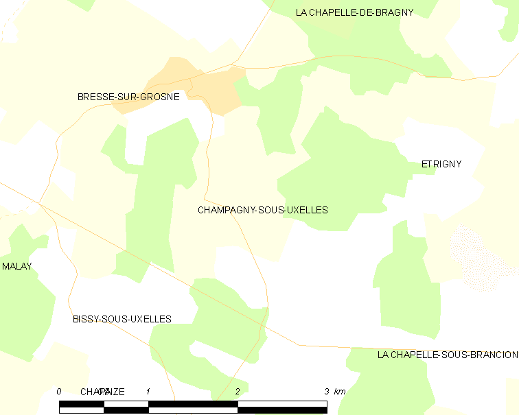 Map of French municipality